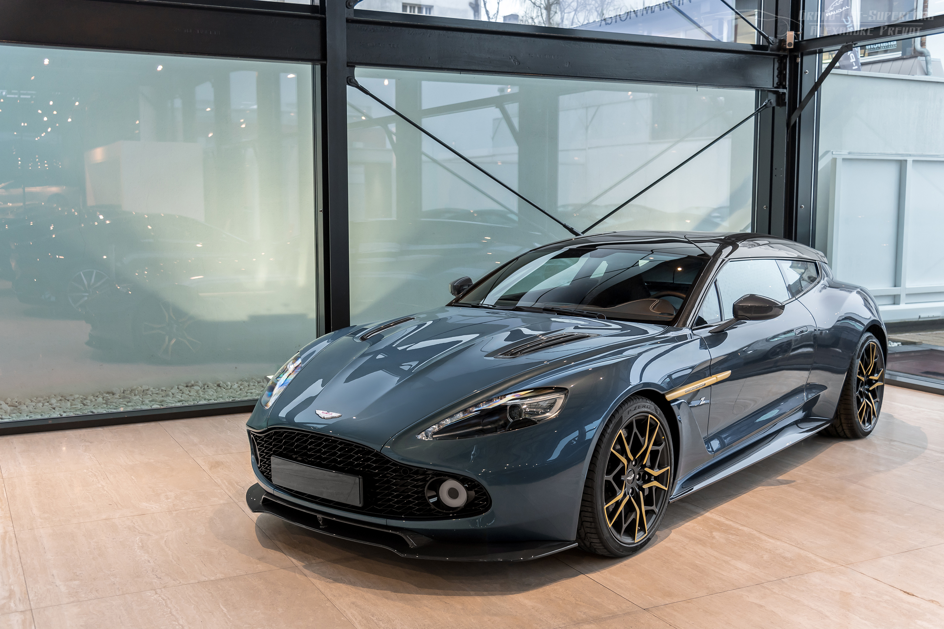 Aston Martin Vanquish Shooting Brake by Zagato at the Autofestival Luxembourg on 26 January 2019.